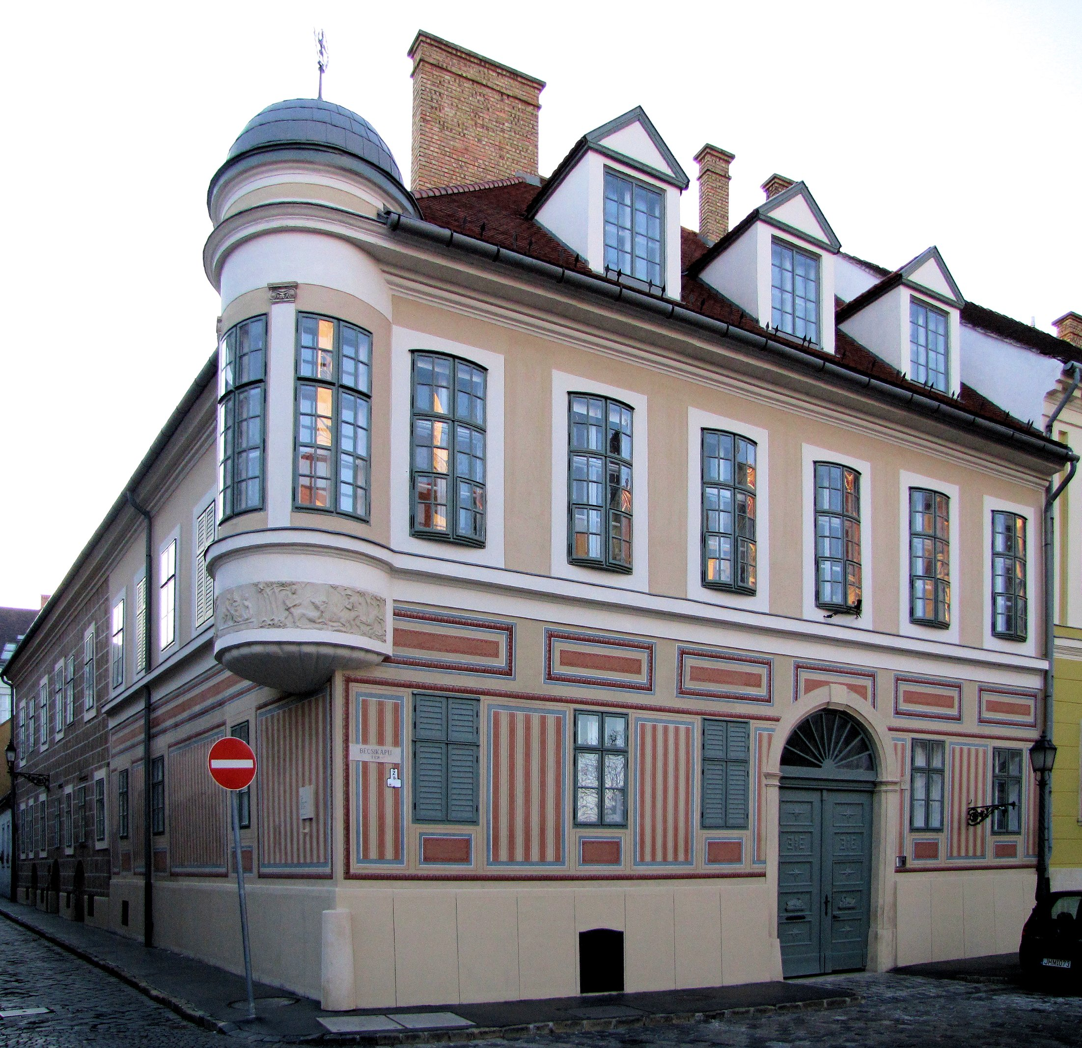 Baroque building on Bécsikapu square, Buda Castle.